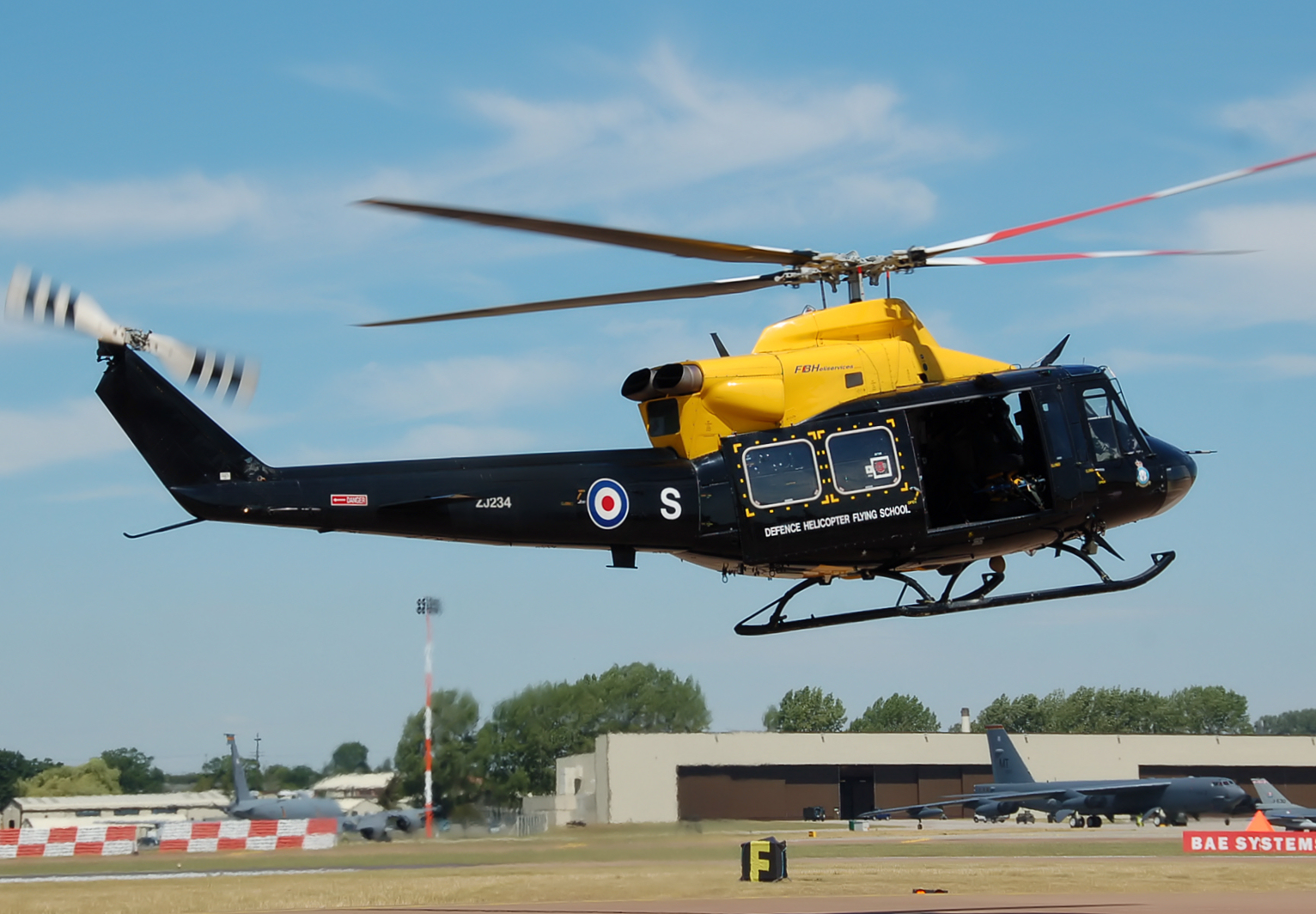 Bell 412EP Griffin HT1 helicopter of the Royal Air Force Defence Helicopter Flying School hover taxis to the runway at the 2010 Air Tattoo at Fairford, Gloucestershire, England.